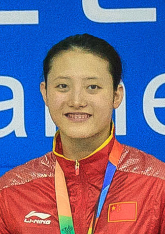 Suo Ran, 2015.